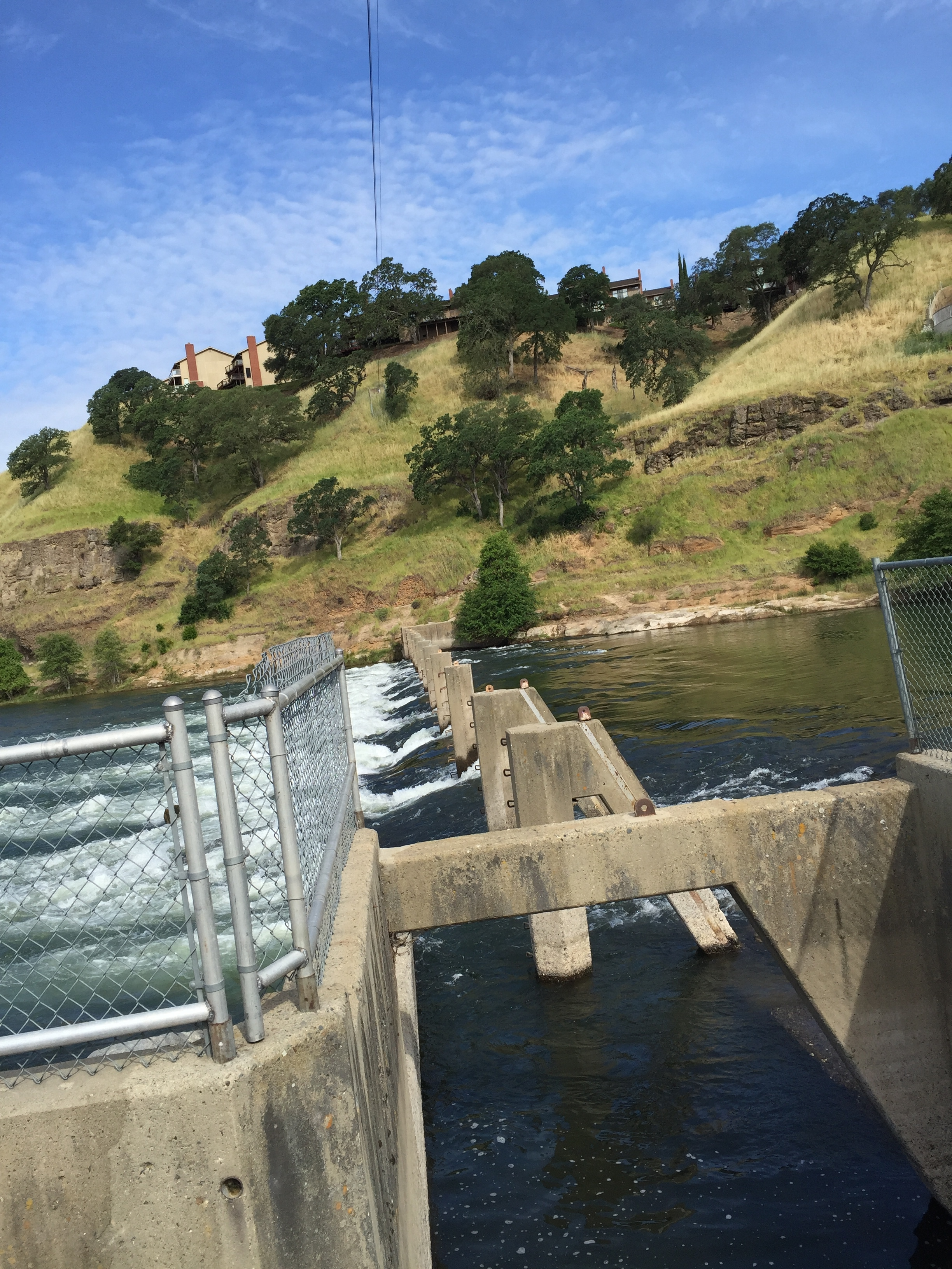 Figure3. These structures in the middle of the river are in place to have the fish during each of the seasonal runs move up the salmon ladder into the hatchery.